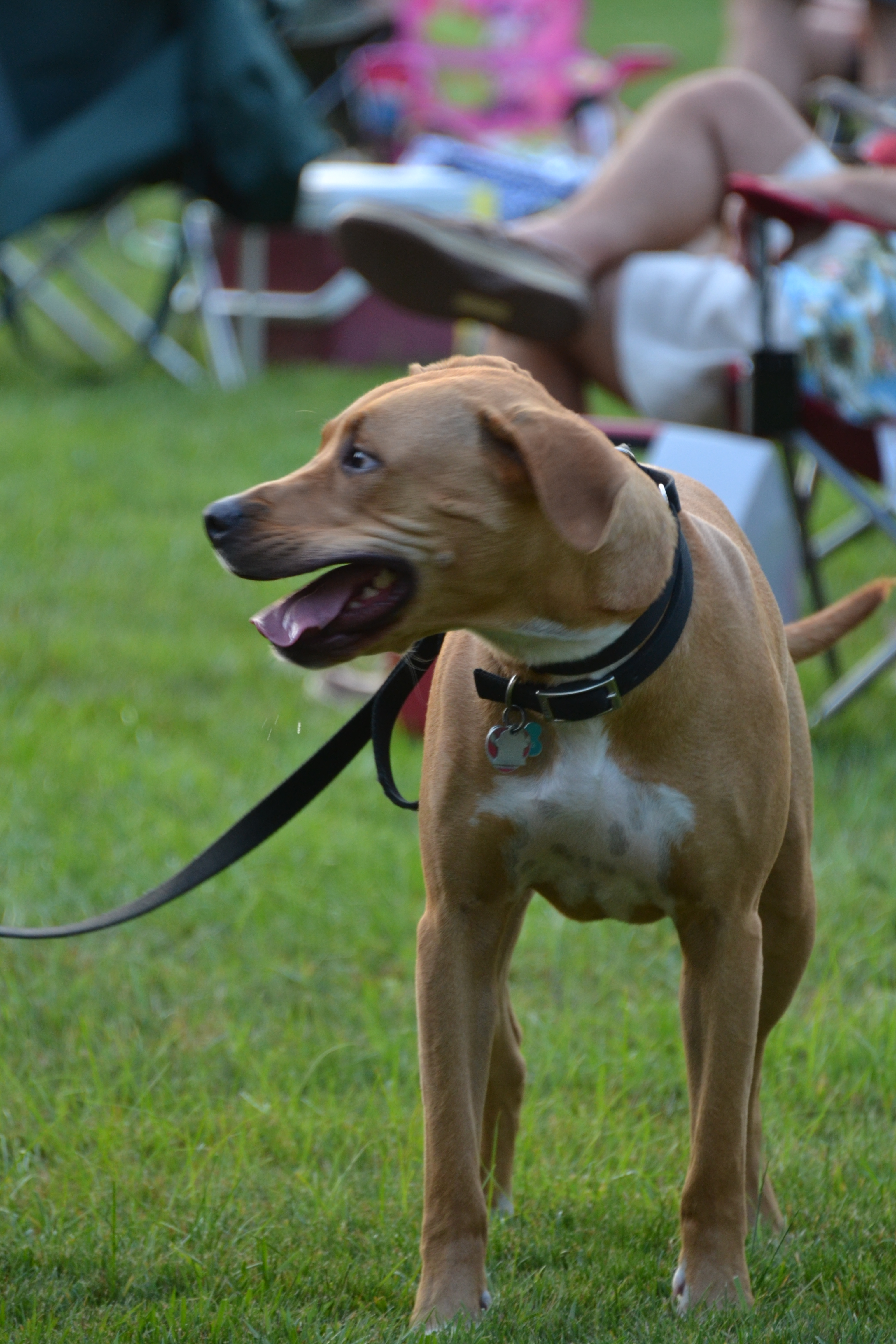 A 14 month old Pit Bull-Lab-Wolf mix -- very big but very friendly.